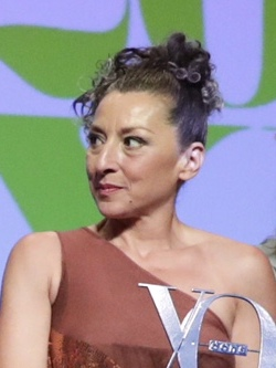 Entrega a Nareen Shammo de uno de los XII Premios Internacionales Yo Dona 2017. Esta periodista y activista iraquí ha tenido la valentía al enfrentarse a ese monstruo que se hace llamar estado islámico y ha denunciado a todo el mundo las atrocidades a las que esos terroristas asesinos someten a las mujeres.